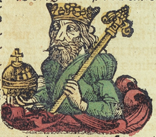 Woodcut from the Nuremberg Chronicle (Latin copy in Sao Paulo)